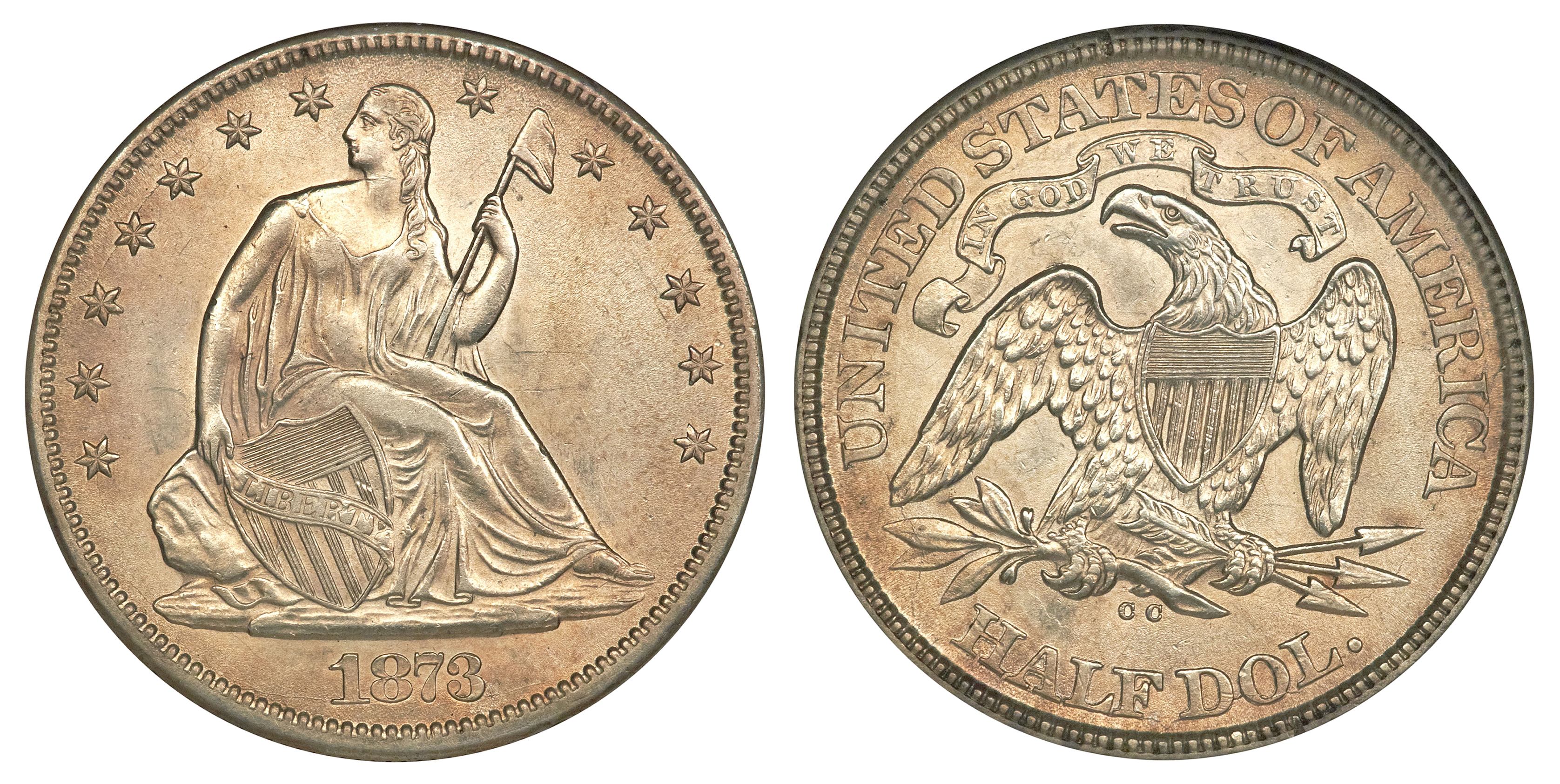 1873-CC 50C No Arrows(1143-3163)